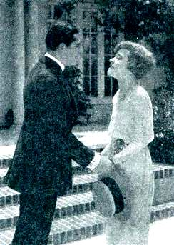 Still from the American comedy film Her Own Money (1922) with Warner Baxter and Ethel Clayton, on page 30 of the May 1922 Film Fun.